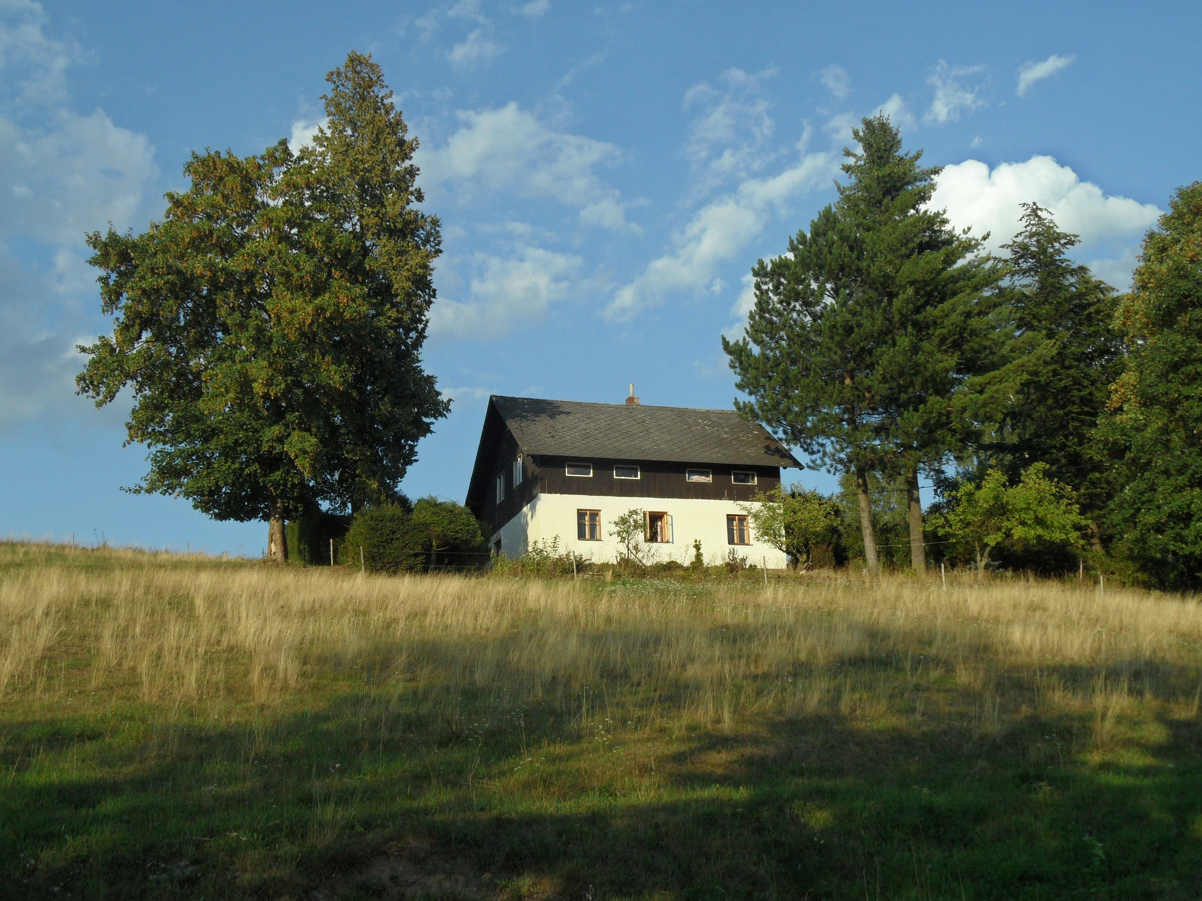 Křivá Voda: House on the Hill. Šumperk District, the Czech Republic